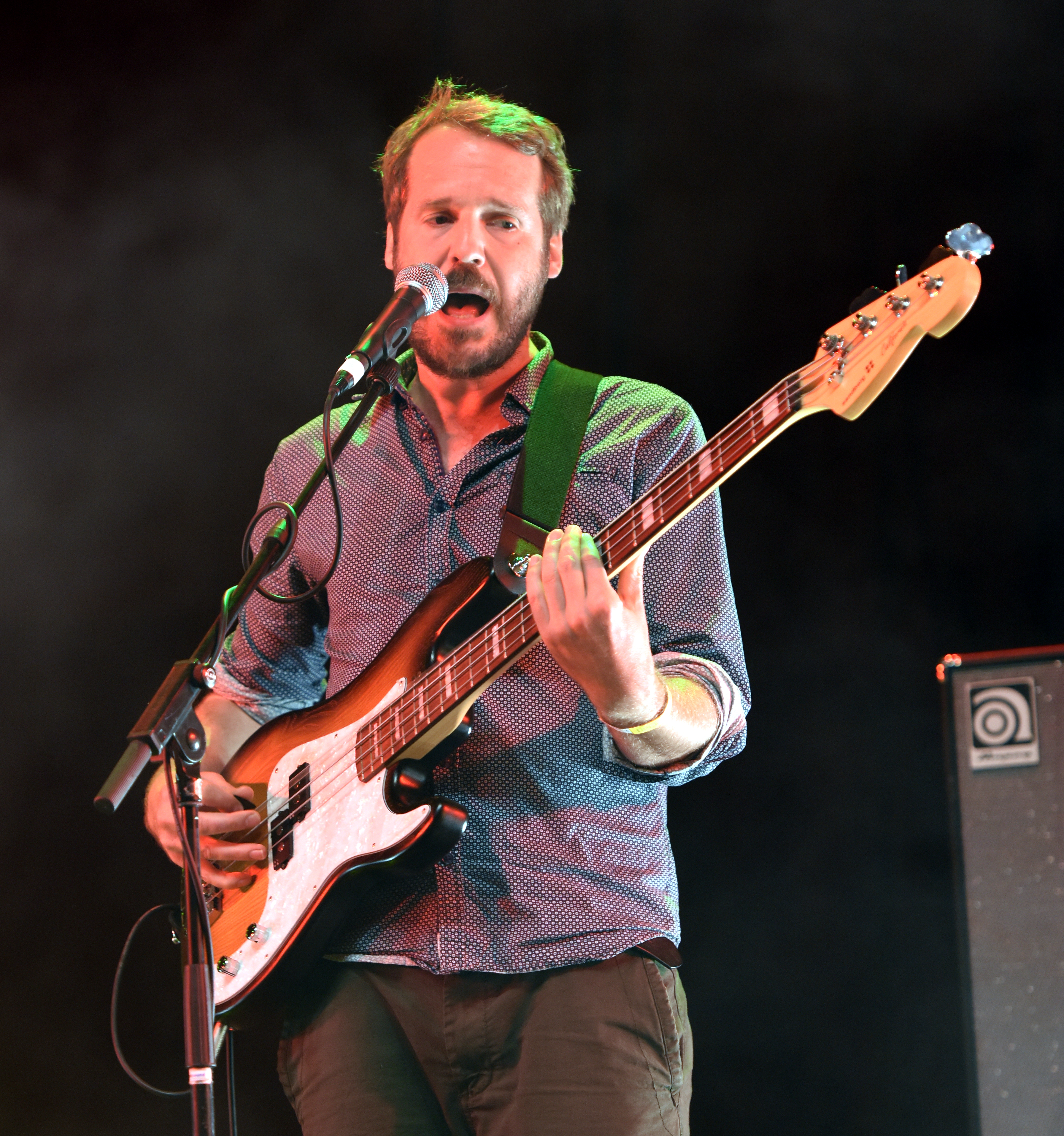 Gisbert zu Knyphausen playing bass for Olli Schulz at the Open Flair festival 2015 in Eschwege, Germany.